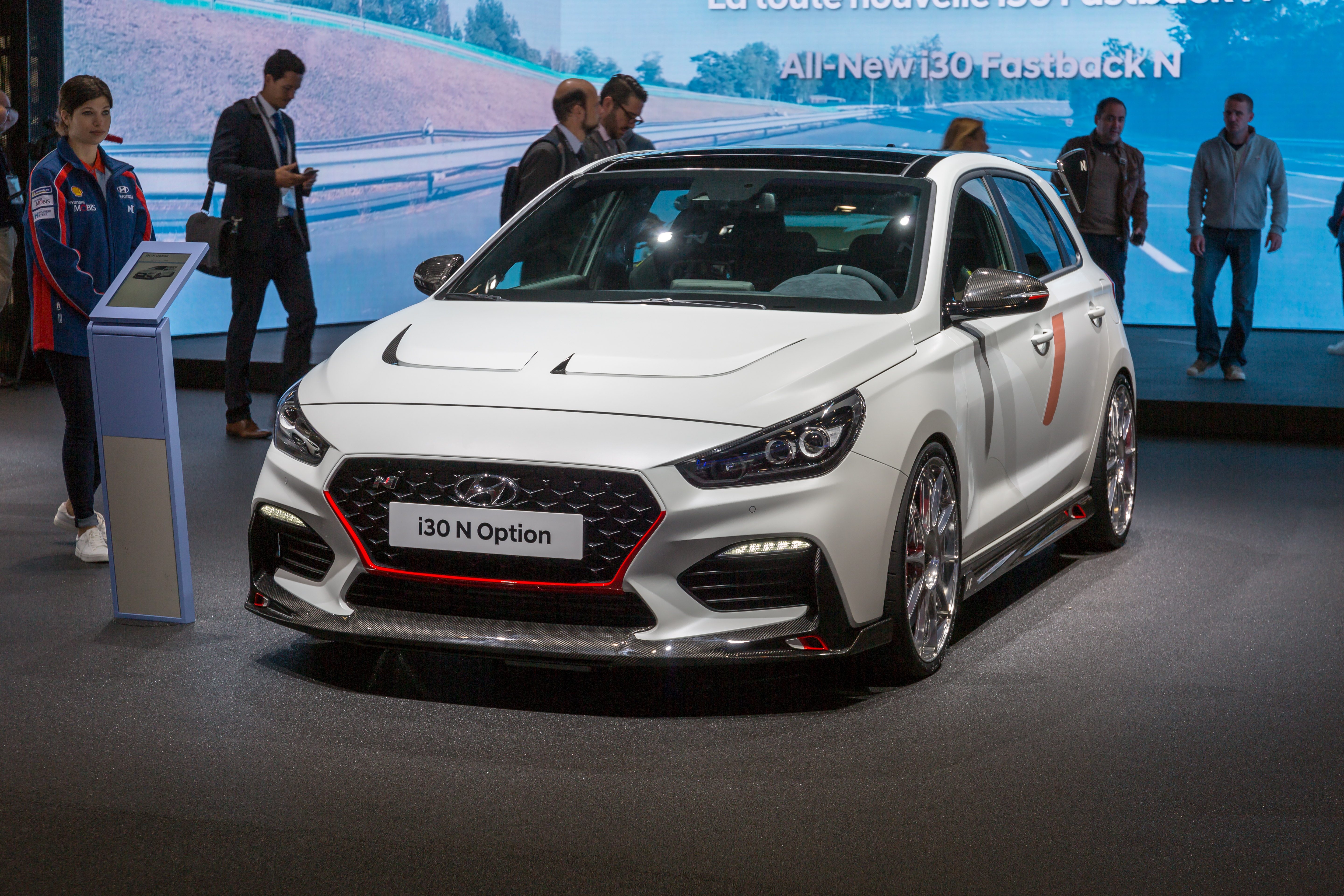 Hyundai i30 N Option, Mondiale Paris Motor Show 2018